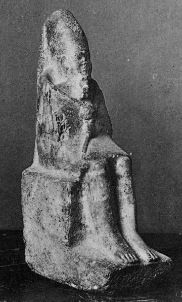 Statue of Menkauhor, probably from Memphis, now in the Egyptian Museum, Cairo (CG 40)